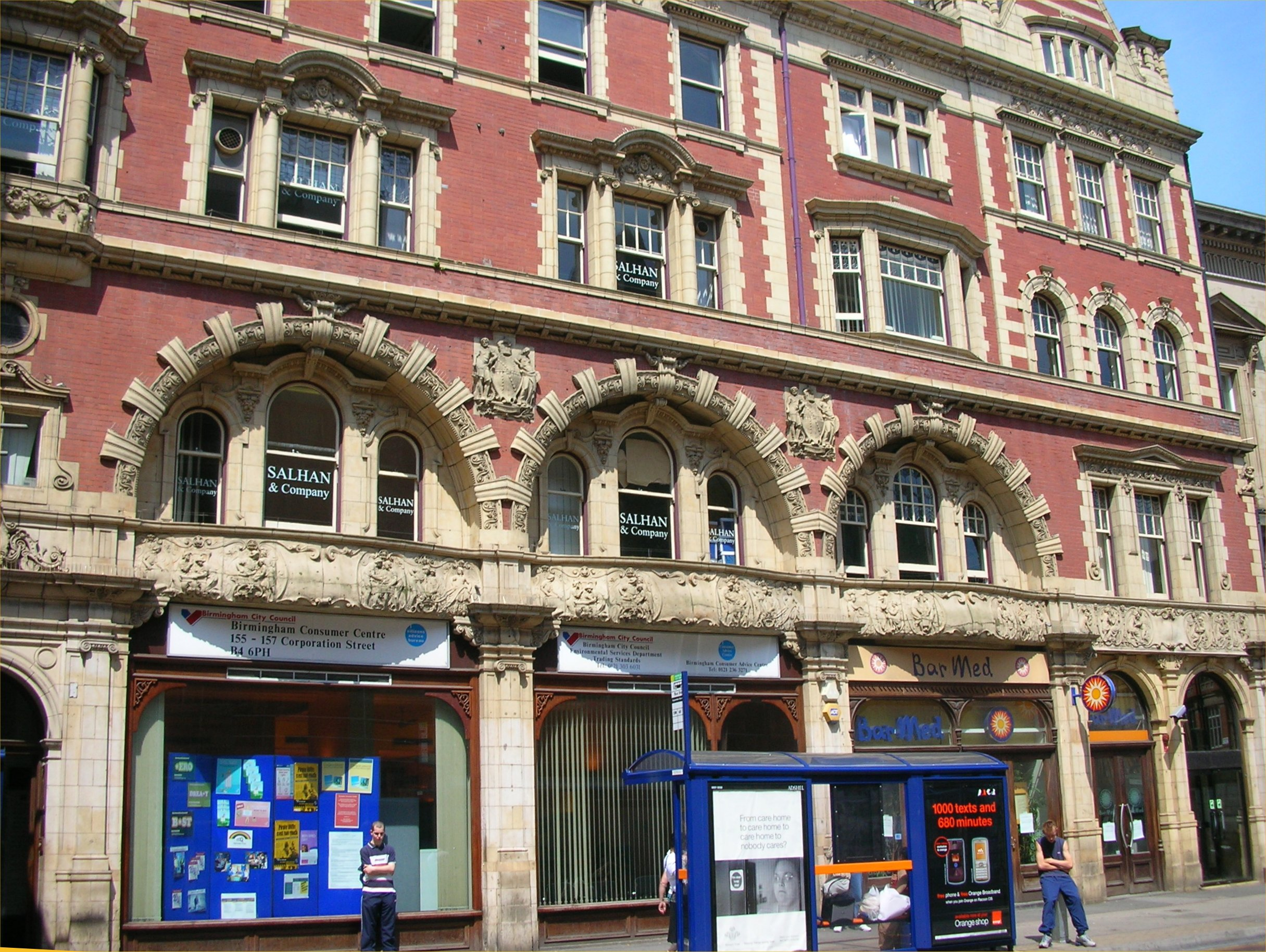 County Building, Corporation Street, Birmingham, England. Grade II* listed, 1896/7 by J Crough and E Butler. Built as a furniture store on the left, and a vegetarian restaurant (The Pitman Vegetarian Hotel) on the right.